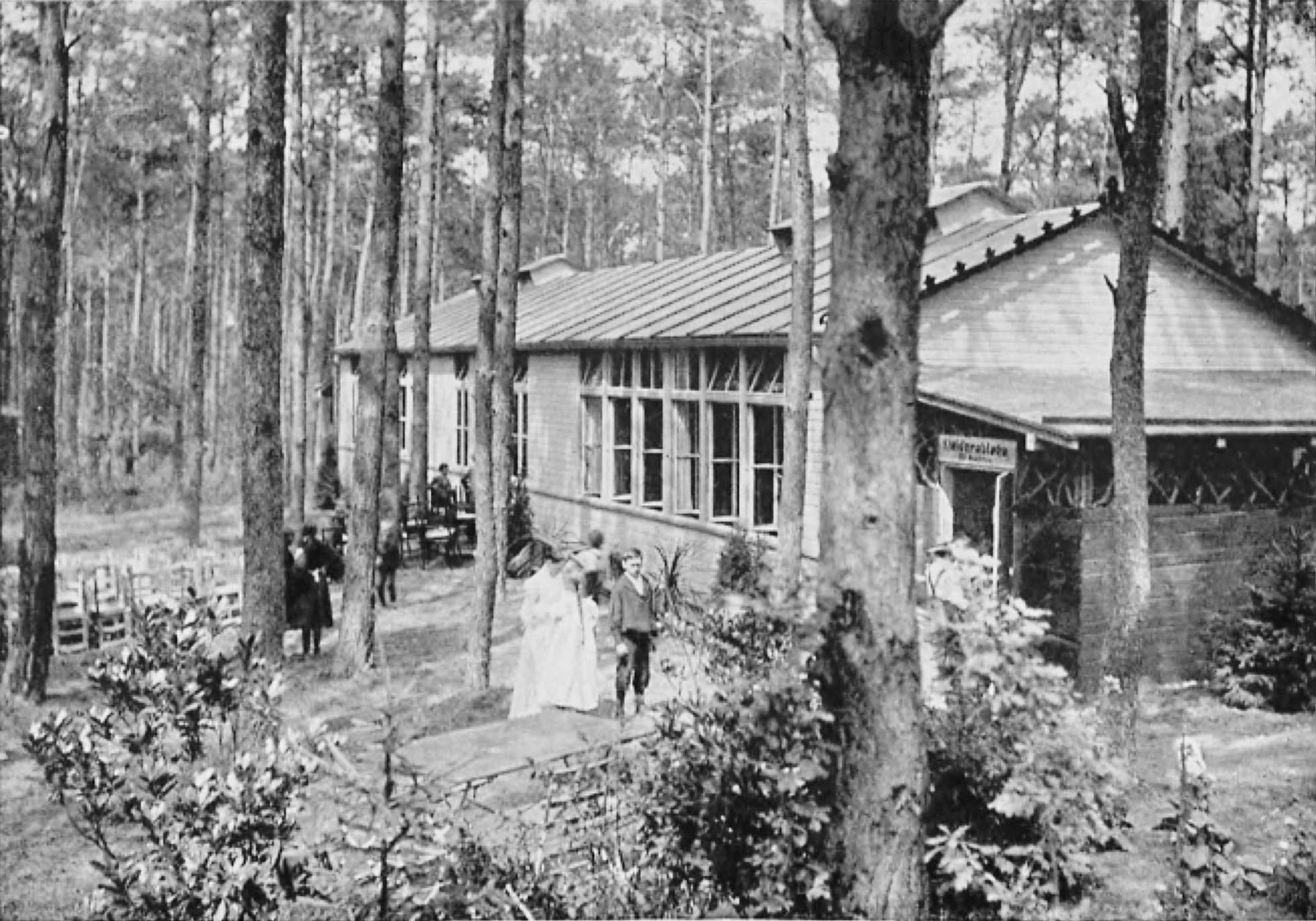 The picture of 1904 shows the first school building of Waldschule für kränkliche Kinder (translated: Forest school for sickly children) in the borrough of Westend, in the city of Charlottenburg, near Berlin, Germany. The very first open-air school worldwide was meant to prevent children from tuberculosis. It was located in the outskirts of Grunewald forest, since 1920 part of Germany's capital.